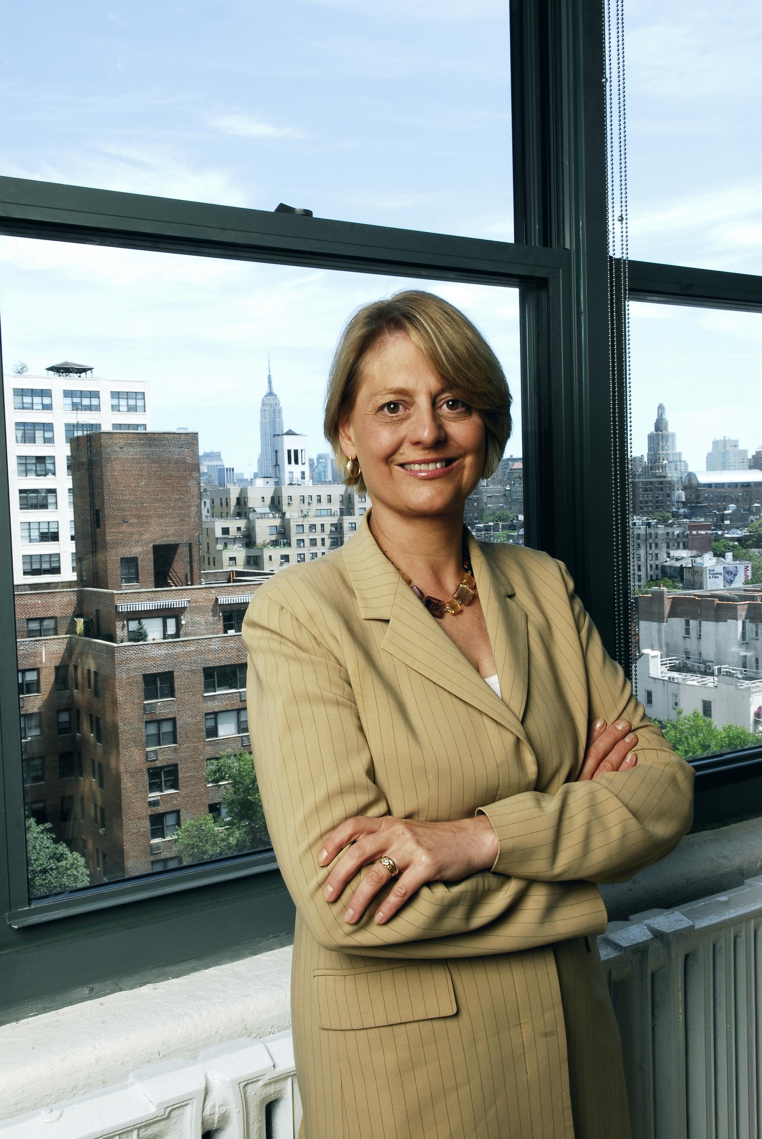 LauraRWalker